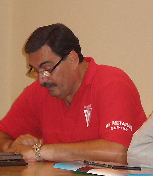 Vlade Đurović, a Serbian basketball coach.